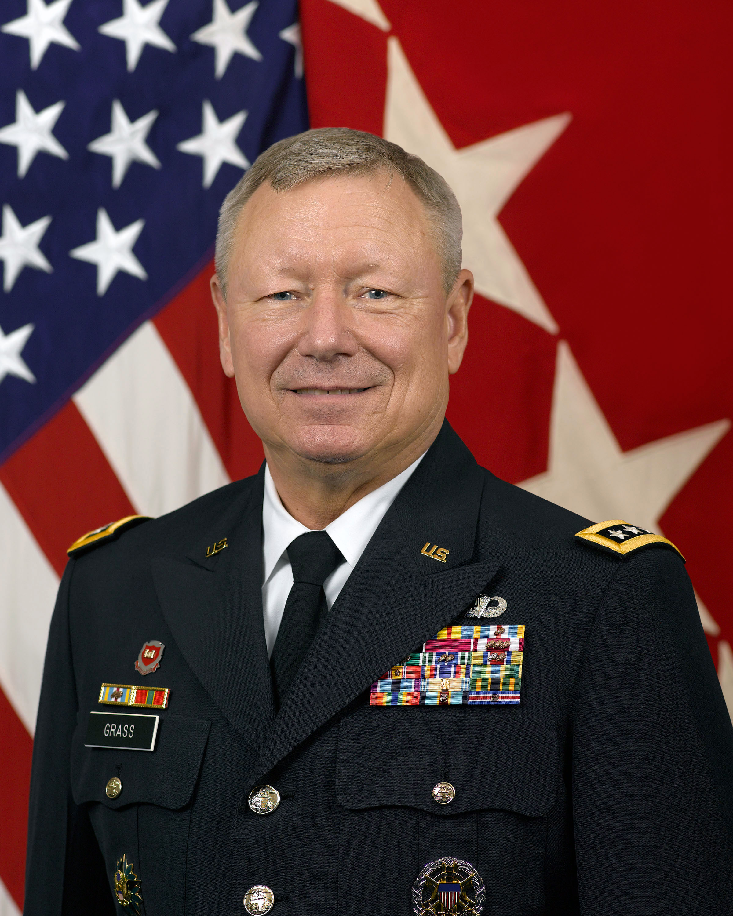 General Frank J. Grass, USA 27th Chief of the National Guard Bureau